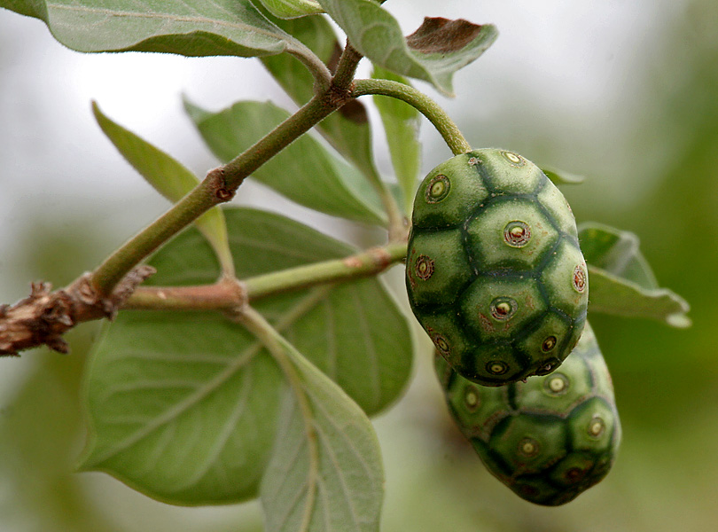 Morinda pubescens (syn. Morinda tinctoria, Morinda tomentosa, Morinda tinctoria var. tomentosa) - Indian Mulberry, Morinda tree • Hindi: आल Aal • Marathi: Aseti, धौला Dhaula • Tamil: Mannanunai, Mannanatti • Malayalam: Mannappavitta • Telugu: Maddi • Kannada: Haladipavette, Maddi • Oriya: Achu, Pindra • Urdu: Togar mughalai • Sanskrit: Paphanah - at Ananthagiri Hills, in Rangareddy district of Andhra Pradesh, India.